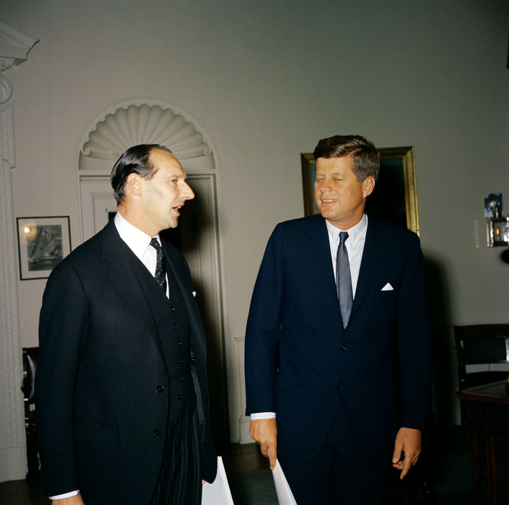 KN-C19267. President John F. Kennedy Meets with the Ambassador of Great Britain, Sir David Ormsby-Gore